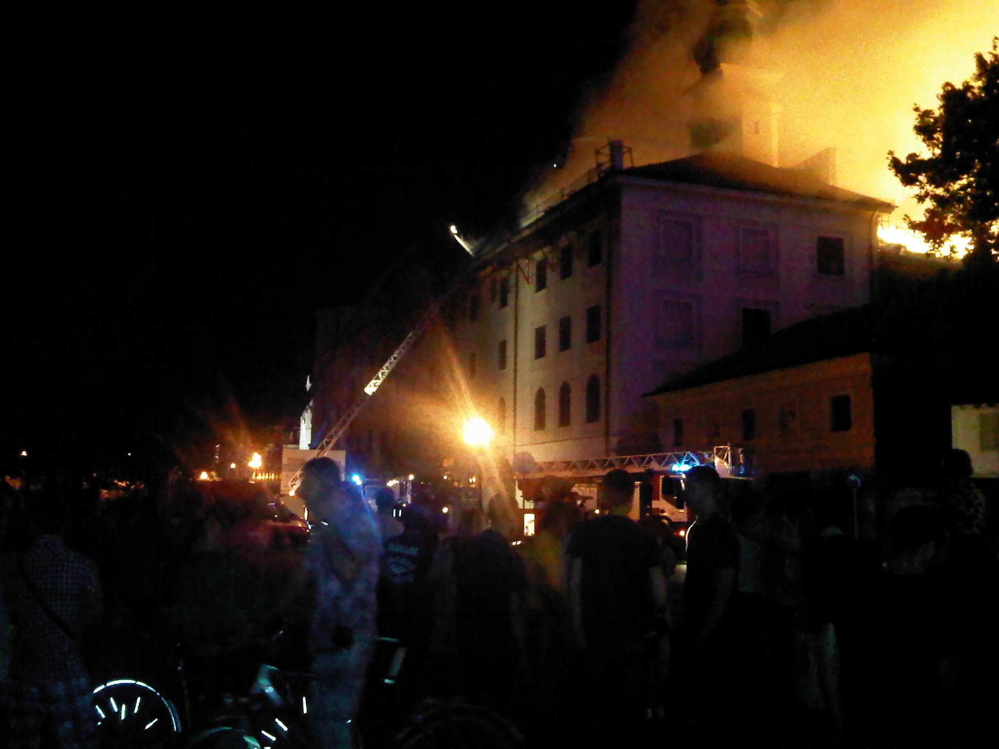 The sight of Riga Castle burning.